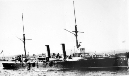 AWM caption : "STARBOARD SIDE VIEW OF THE THIRD CLASS PROTECTED CRUISER HMS WALLAROO (EX-HMS PERSIAN) OF THE AUSTRALIAN AUXILIARY SQUADRON OF THE ROYAL NAVY. THE PHOTOGRAPH PRE-DATES THE 1902 CHANGE FROM THE LATE NINETEENTH CENTURY COLOUR SCHEME OF BLACK, WHITE AND BUFF TO OVER-ALL GREY"